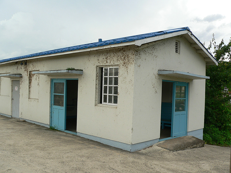 KORAIL Gakgye Station